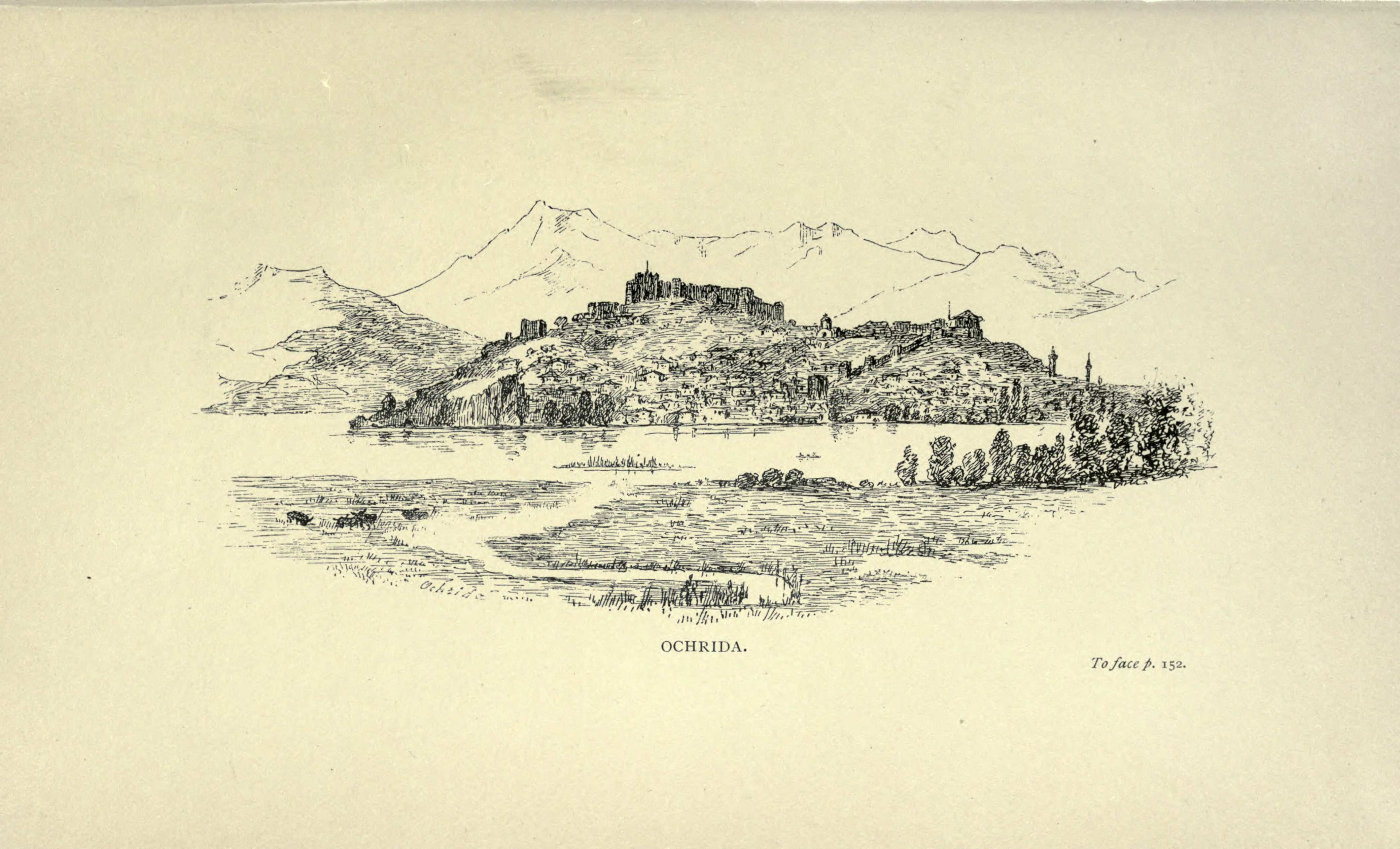 Ochrida by Mary Adelaide Walker